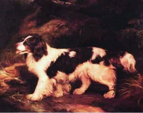 "Water Spaniel" (1815), a painting by Ramsay Richard Reinagle